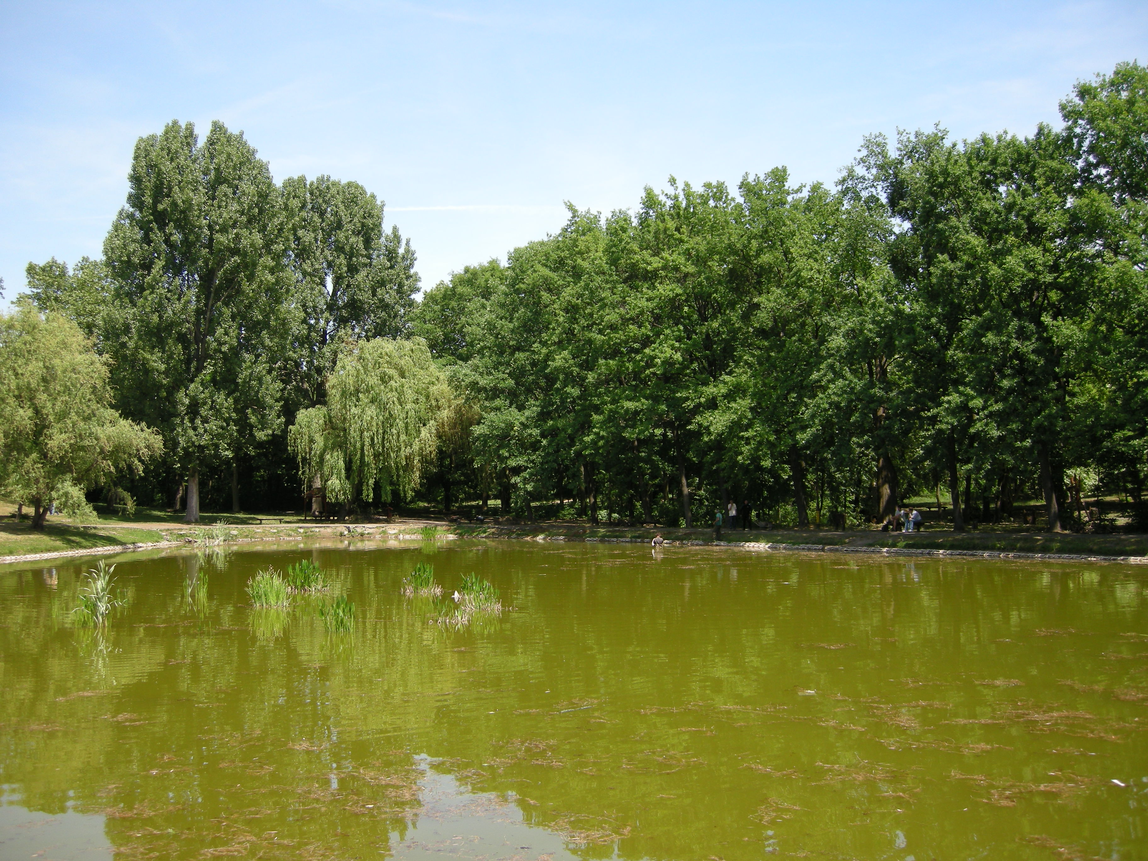 Debrecen Nagyerdő (Greatwood) City Park, the first Nature Reserve in Hungary